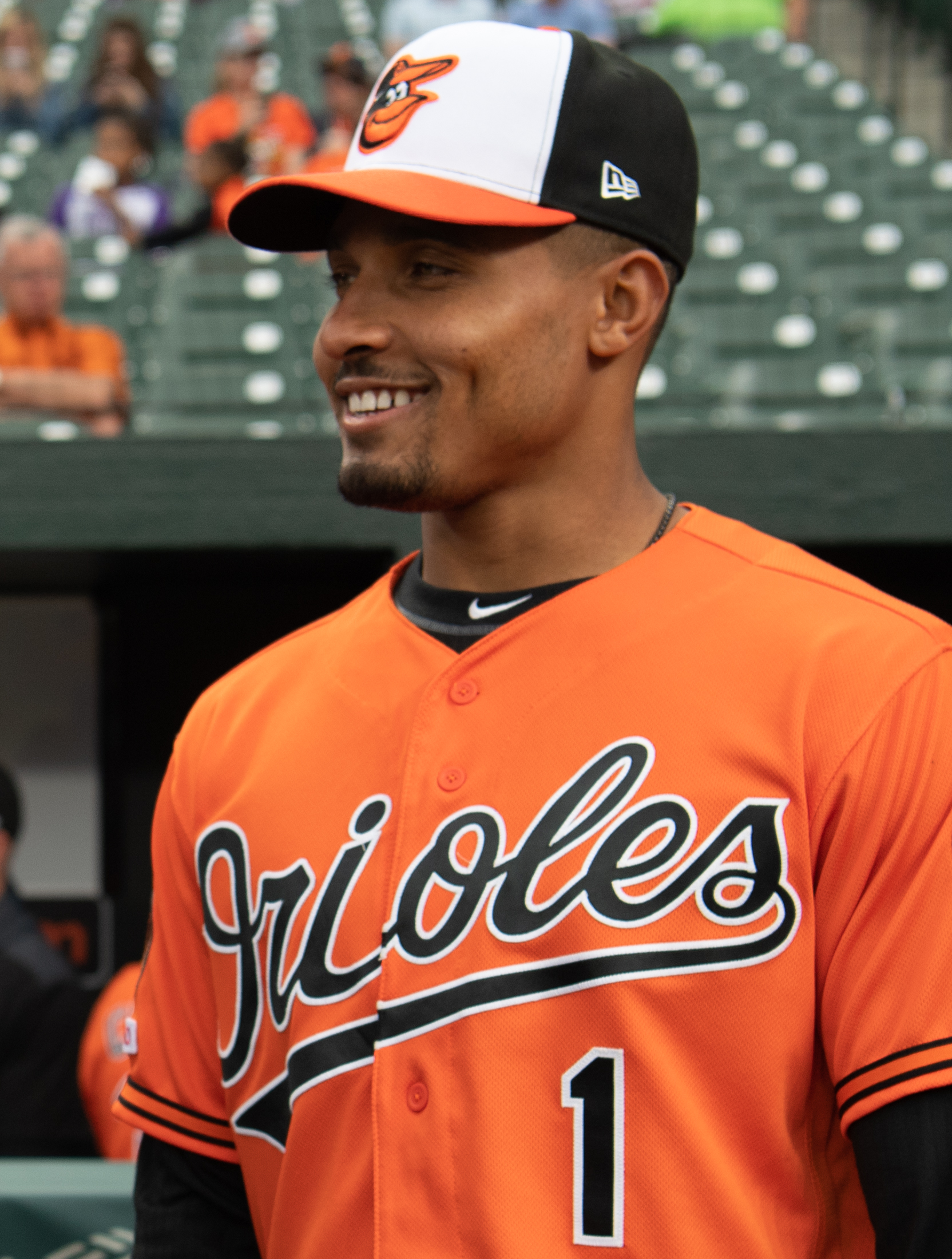 NASA astronaut and Maryland native Ricky Arnold talks with Baltimore Orioles shortstop Richie Martin before the Tampa Bay Rays take on the Baltimore Orioles, Saturday, May 4, 2019 at Camden Yards in Baltimore, Md. During Arnold’s 197 days onboard the International Space Station, as part of Expeditions 55 and 56, he ventured outside the space station on three spacewalks in addition to conducting numerous experiments and educational downlink events.